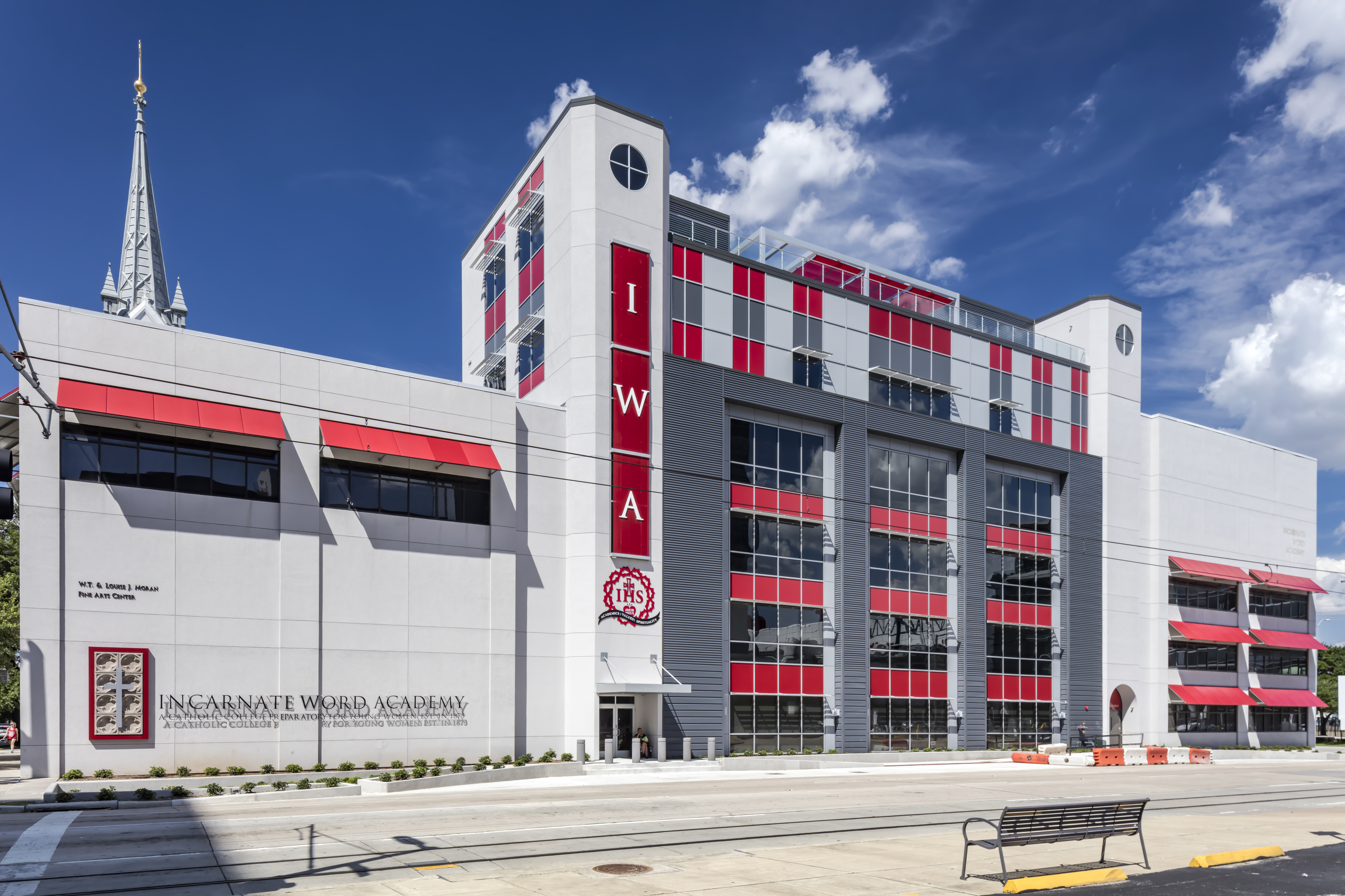 Incarnate Word Academy in Houston, Texas